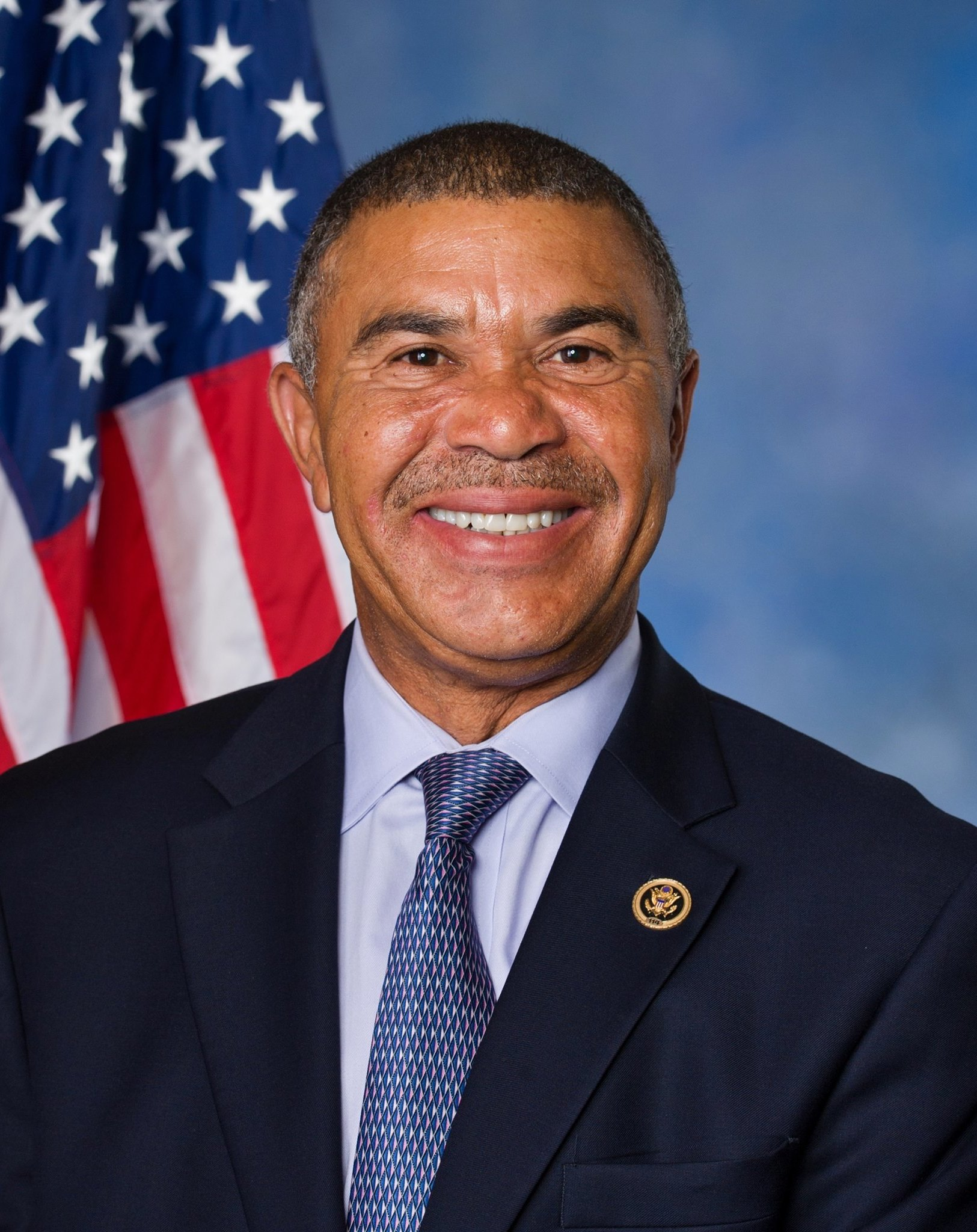 Lacy Clay official photo